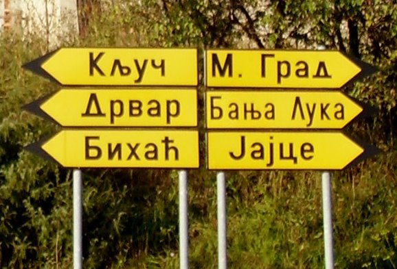 Direction road sign in Podbrdo, Mrkonjić grad municipality, Bosnia.